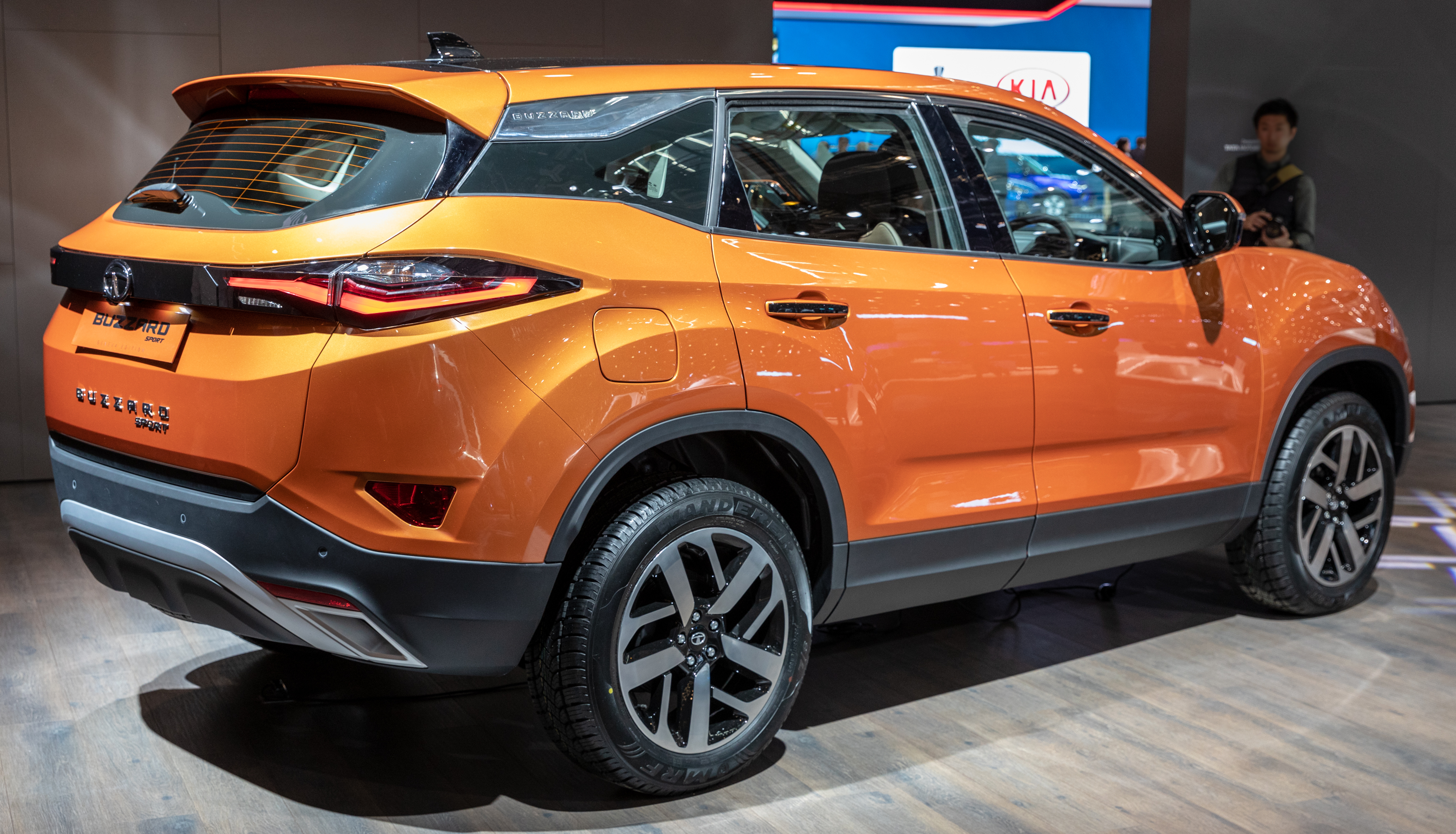 Tata Buzzard Sport at Geneva International Motor Show 2019, Le Grand-Saconnex